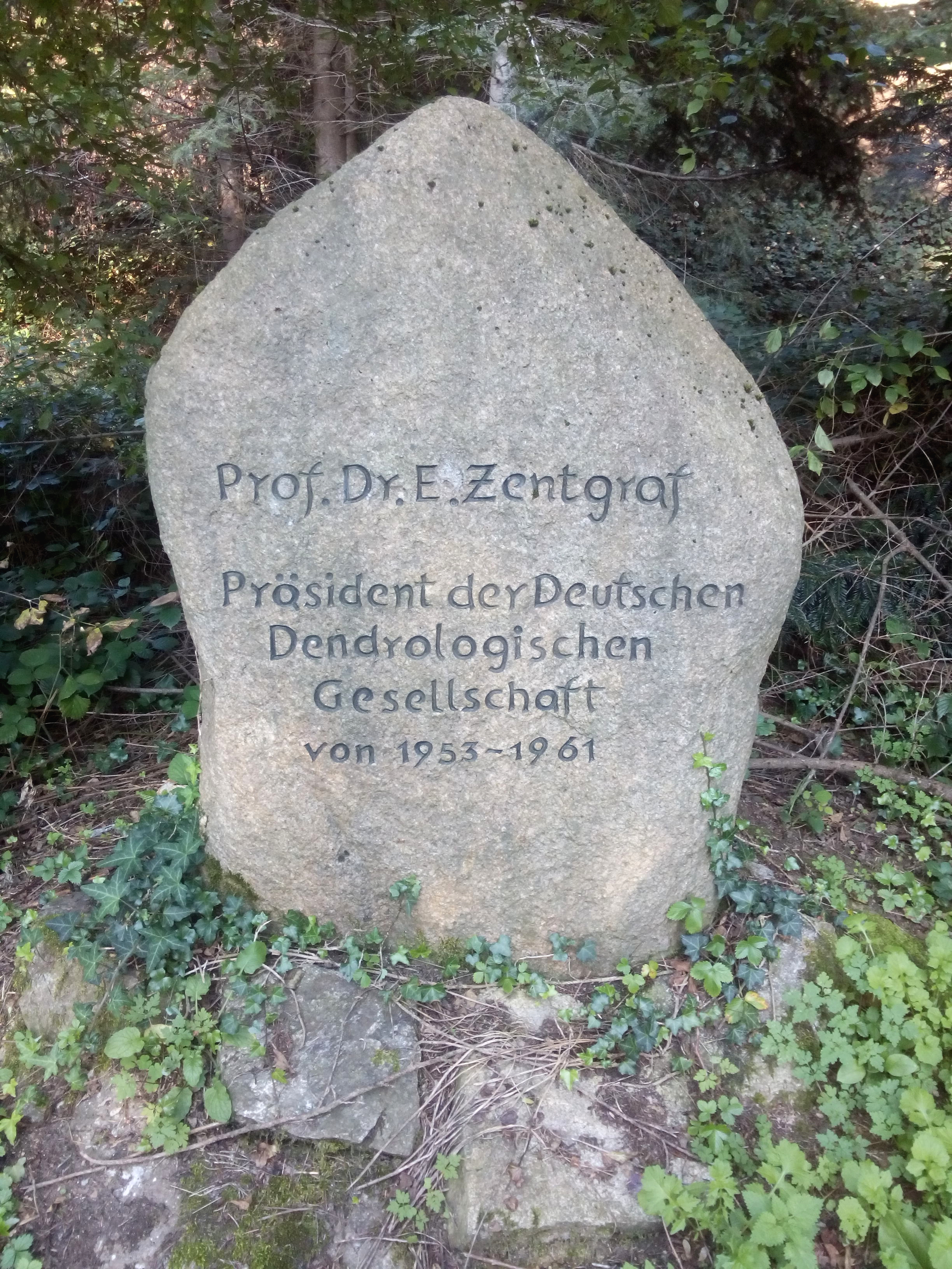 Prof. Dr. Eduard Zentgraf, dendrochronologist